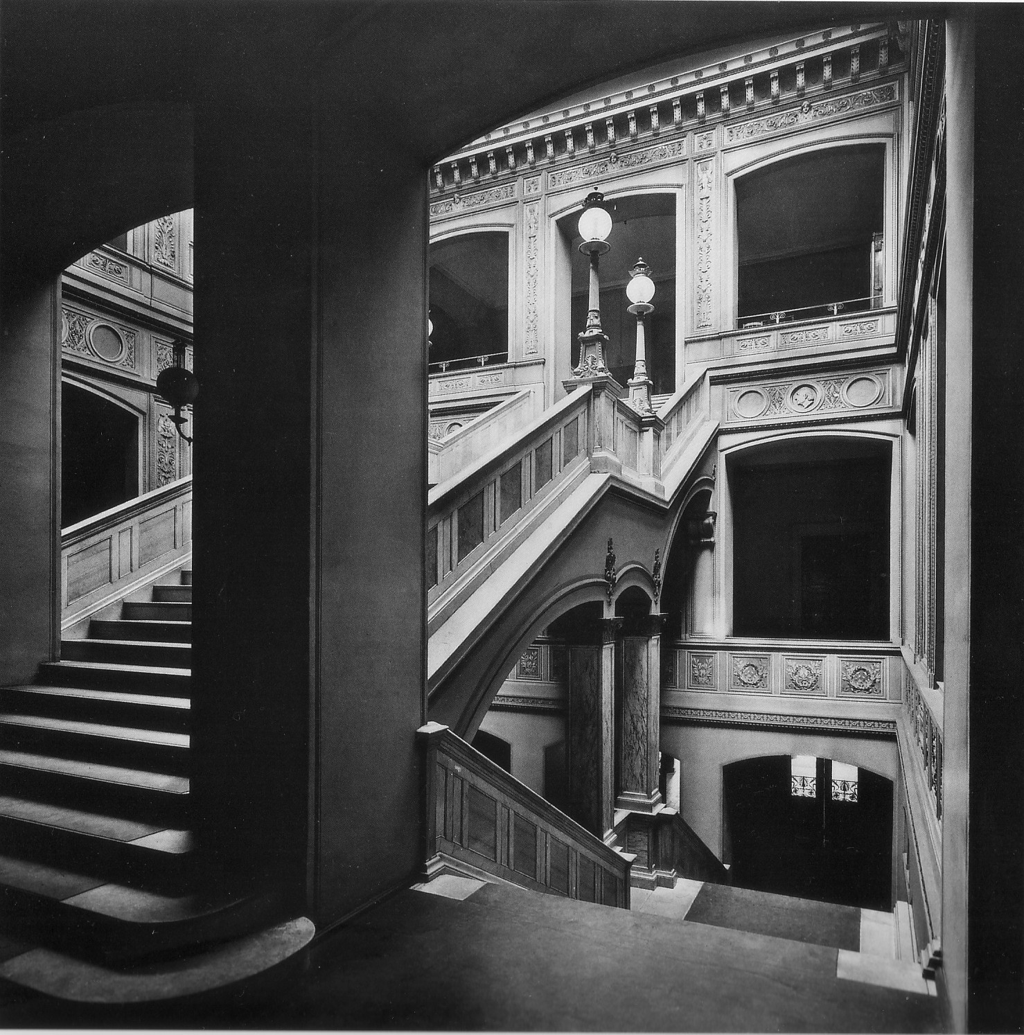 Staircase in the "Bauakademie" in Berlin (Germany). The building, erected 1832-36, were damaged in World War II and broken down 1961/62.